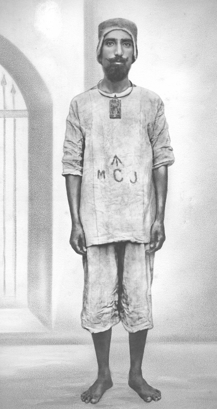 This photograph of Pandit Amir Chand Bombwal was taken after transfer from Peshawar Central Jail to Multan Central Jail while undergoing three years rigorous imprisonment under Section 40 Frontier Crimes Regulation, in connection with the first Non-Cooperation Movement in the erstwhile North-West Frontier Province of British India in 1921-23. Wooden identification tablet with the steel ring around the neck indicates the serial number of the prisoner in jail "884", the Section under which punished "40", and the period of imprisonment "3Y", showing from "22.2.21 to 21.2.24"